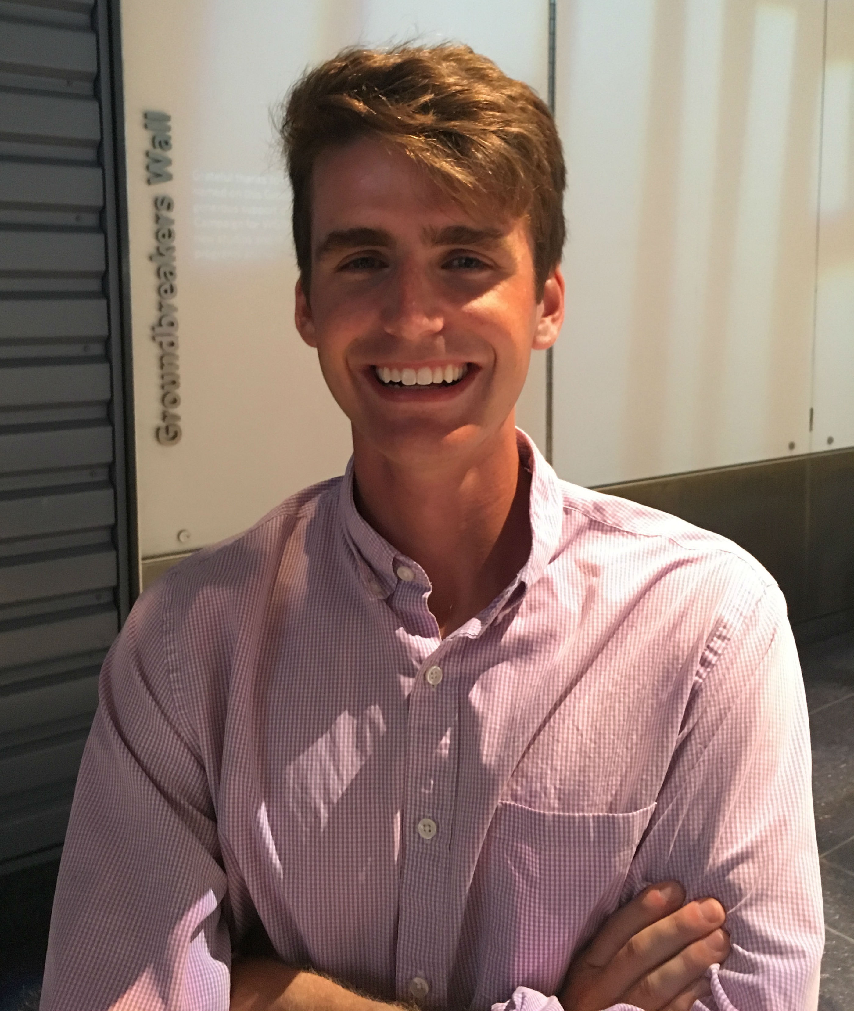 Andrew Campbell on 16 June 2016 (age 24)